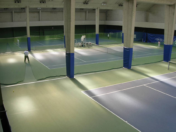 Tennis field at Tennis Club de Paris